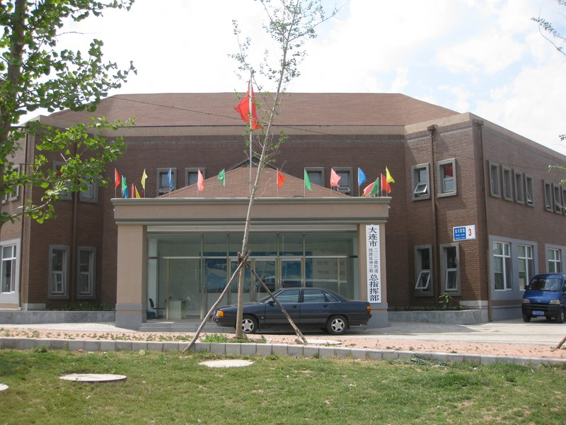 Headquarters of Dalian Tramway Route 202 Extension Project